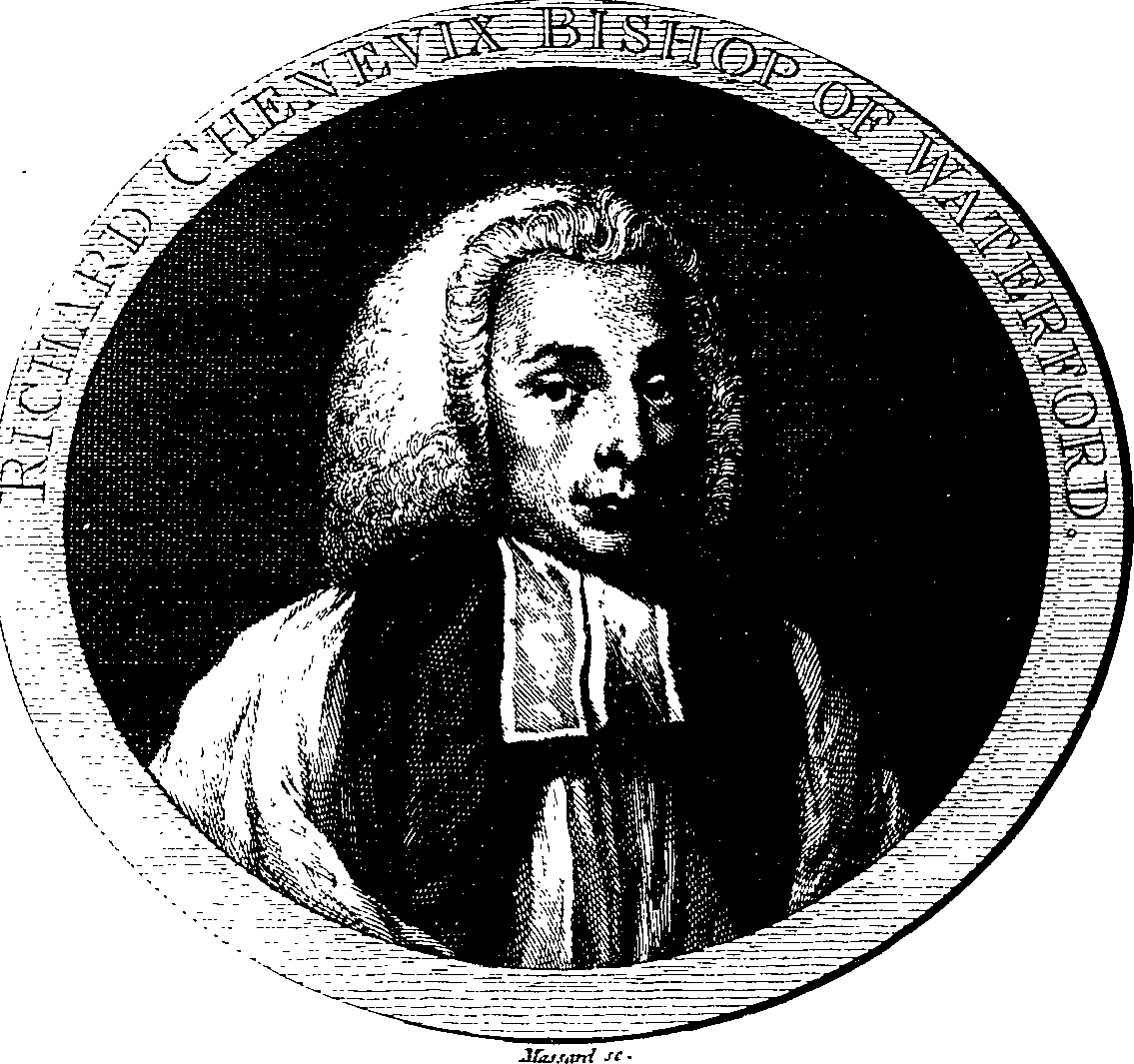 Fleuron from book: Miscellaneous works of the late Philip Dormer Stanhope, Earl of Chesterfield: consisting of letters to his friends, never before printed, and various other articles. To which are prefixed, memoirs of his life, Tending To Illustrate The Civil, Literary, And Political History Of His Time. By M. Maty, M. D. Late Principal Librarian Of The British Museum, And Secretary To The Royal Society. In three volumes. ...